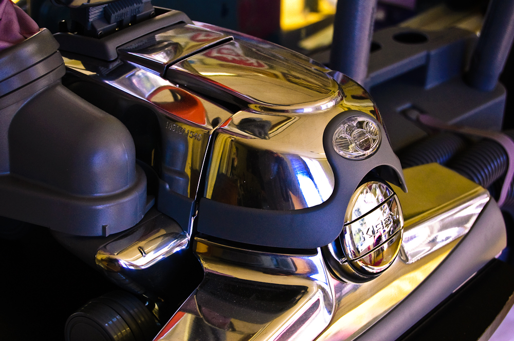 Kirby Chrome model